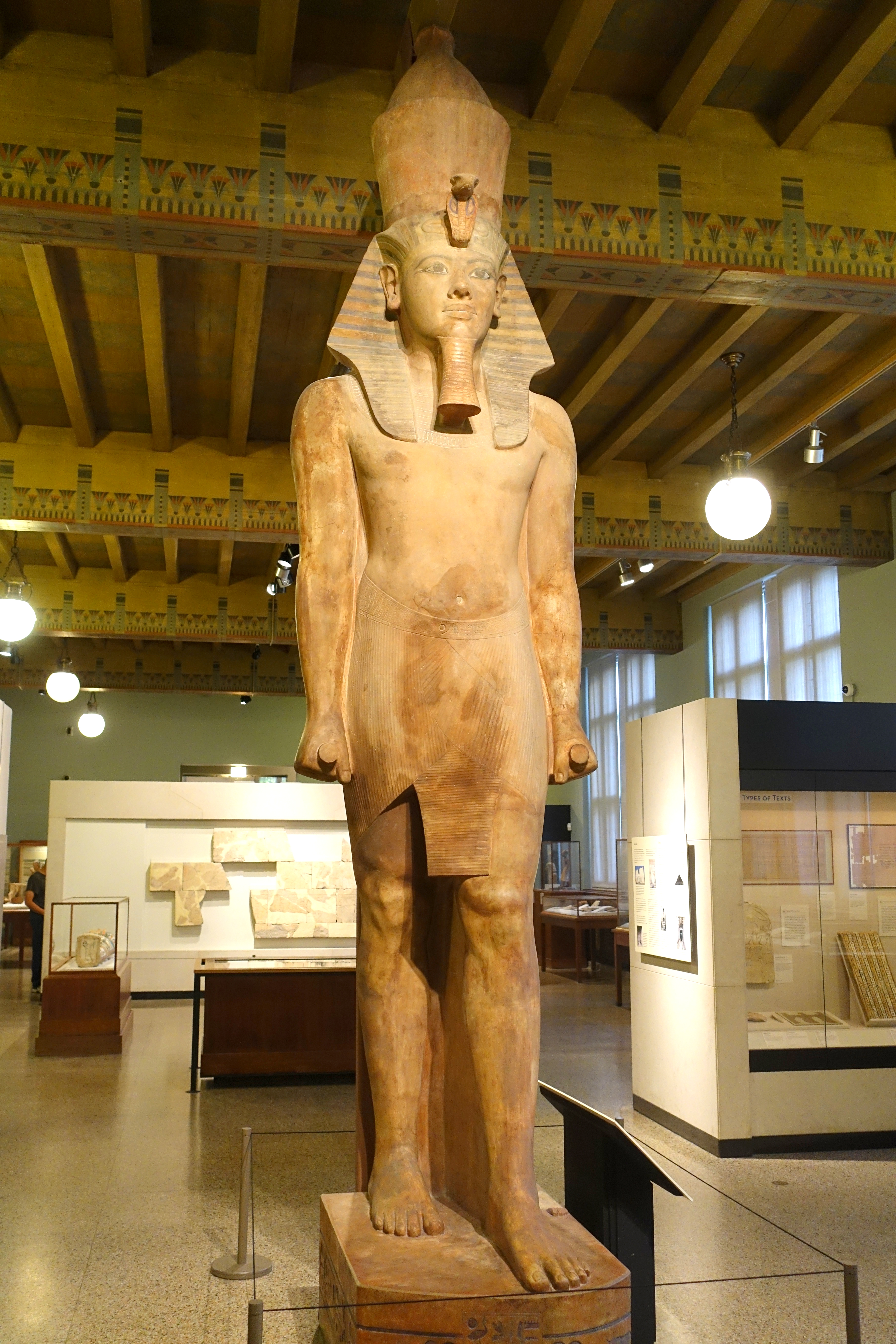 Exhibit in the Oriental Institute Museum, University of Chicago, Chicago, Illinois, USA. This work is old enough so that it is in the public domain.